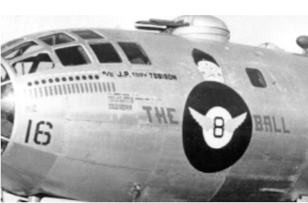 1st Bombardment Squadron Boeing B-29-75-BW Superfortress 44-70070 "The 8 Ball"